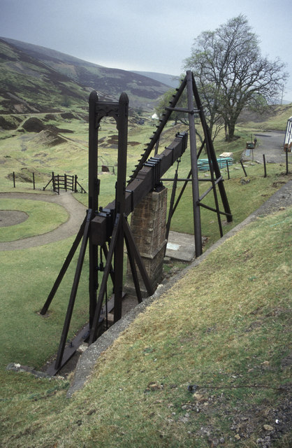 Wanlockhead beam engine. Water-balance beam pumping engine on a lead mine at Wanlockhead.There is a stone crushing-circle in the left background. A very high, lonely and eerie site.